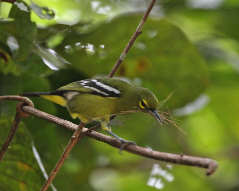 Green Iora Aegithina viridissima March 4, 2007 Panti Forest, Johor, Malaysia Status: Near threatened Distribution: 125Y5002